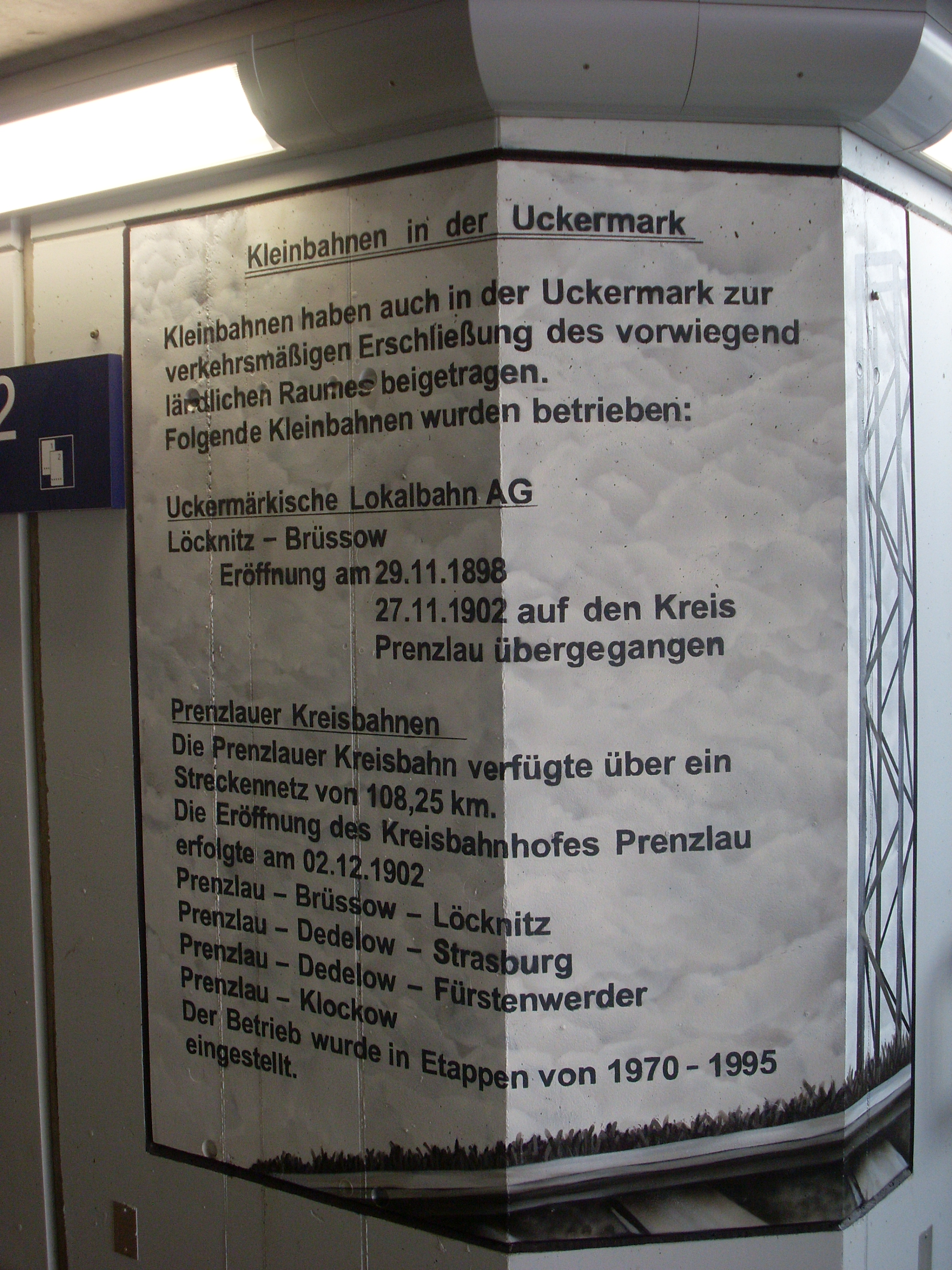 Station tunnel Prenzlau with informations about the "small railways".